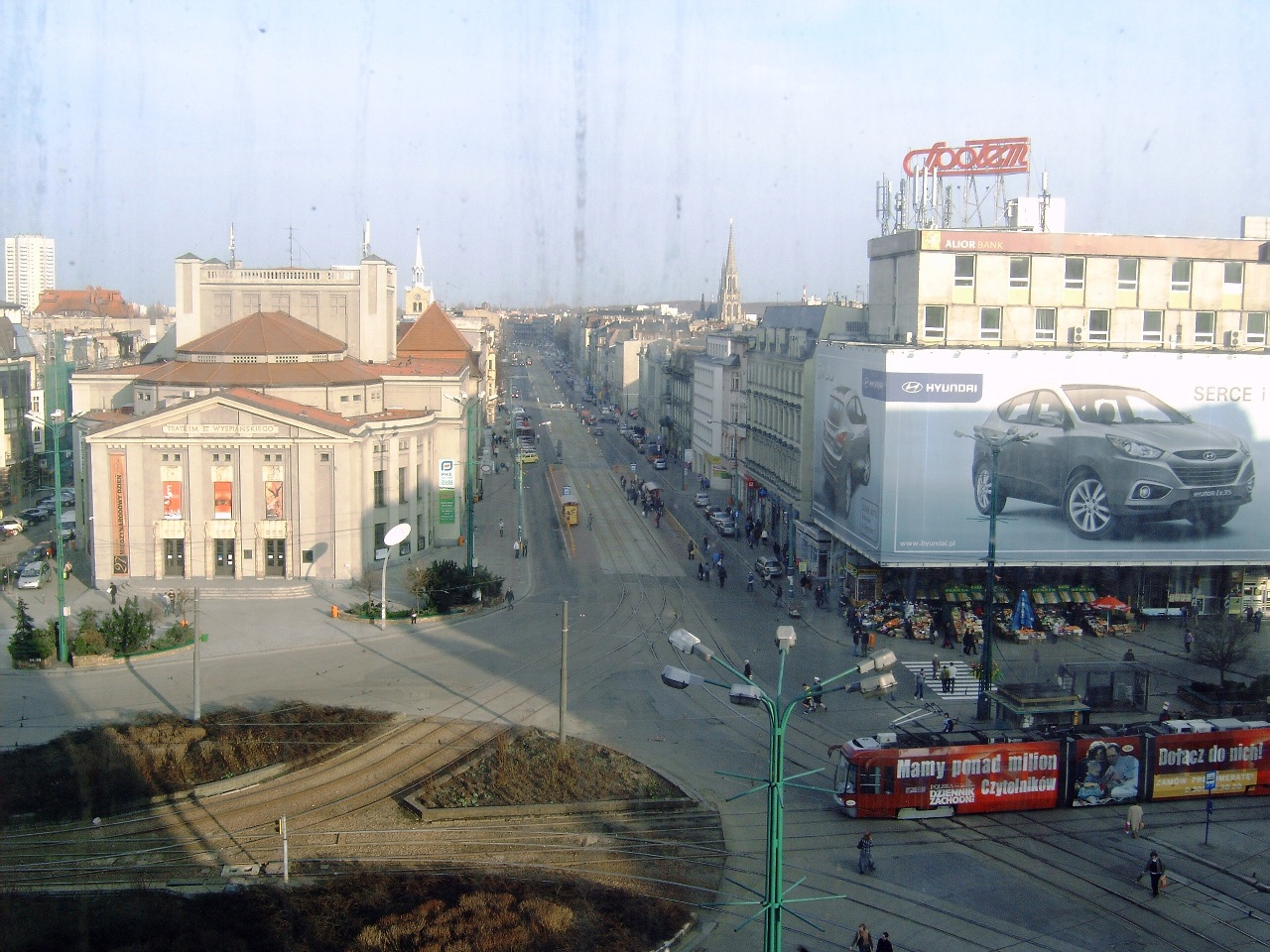 Warszawska Street in Katowice